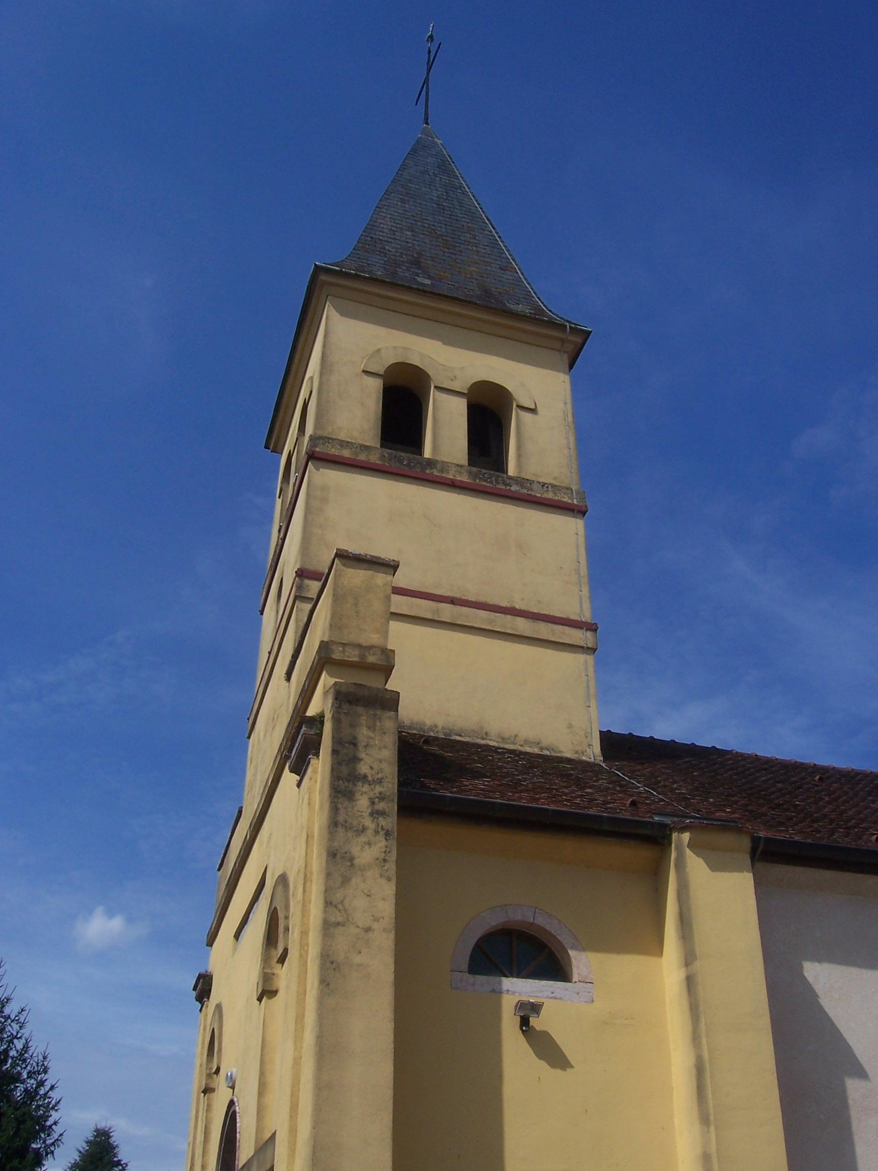 Eglise de Ratte